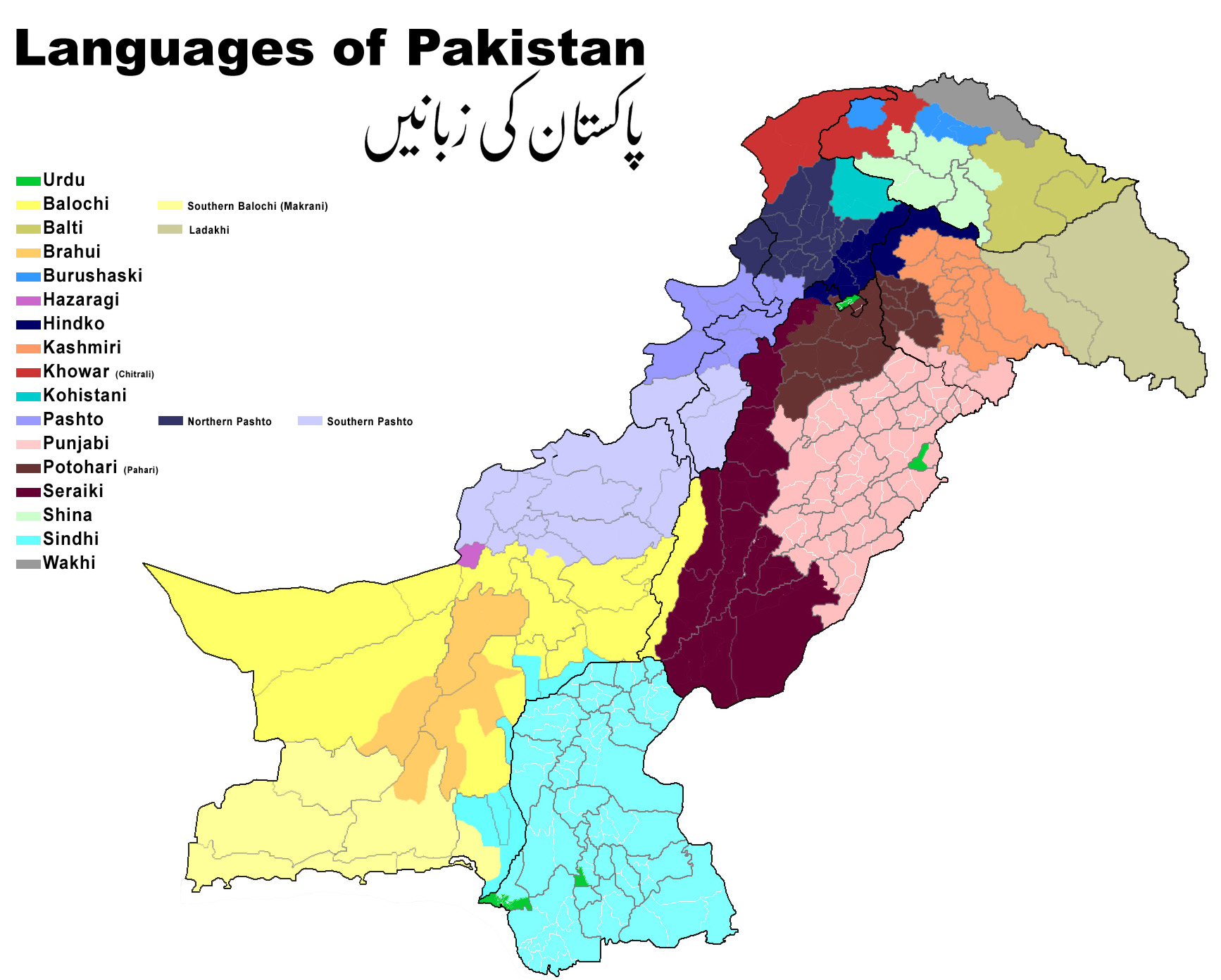 Pakistani languages map